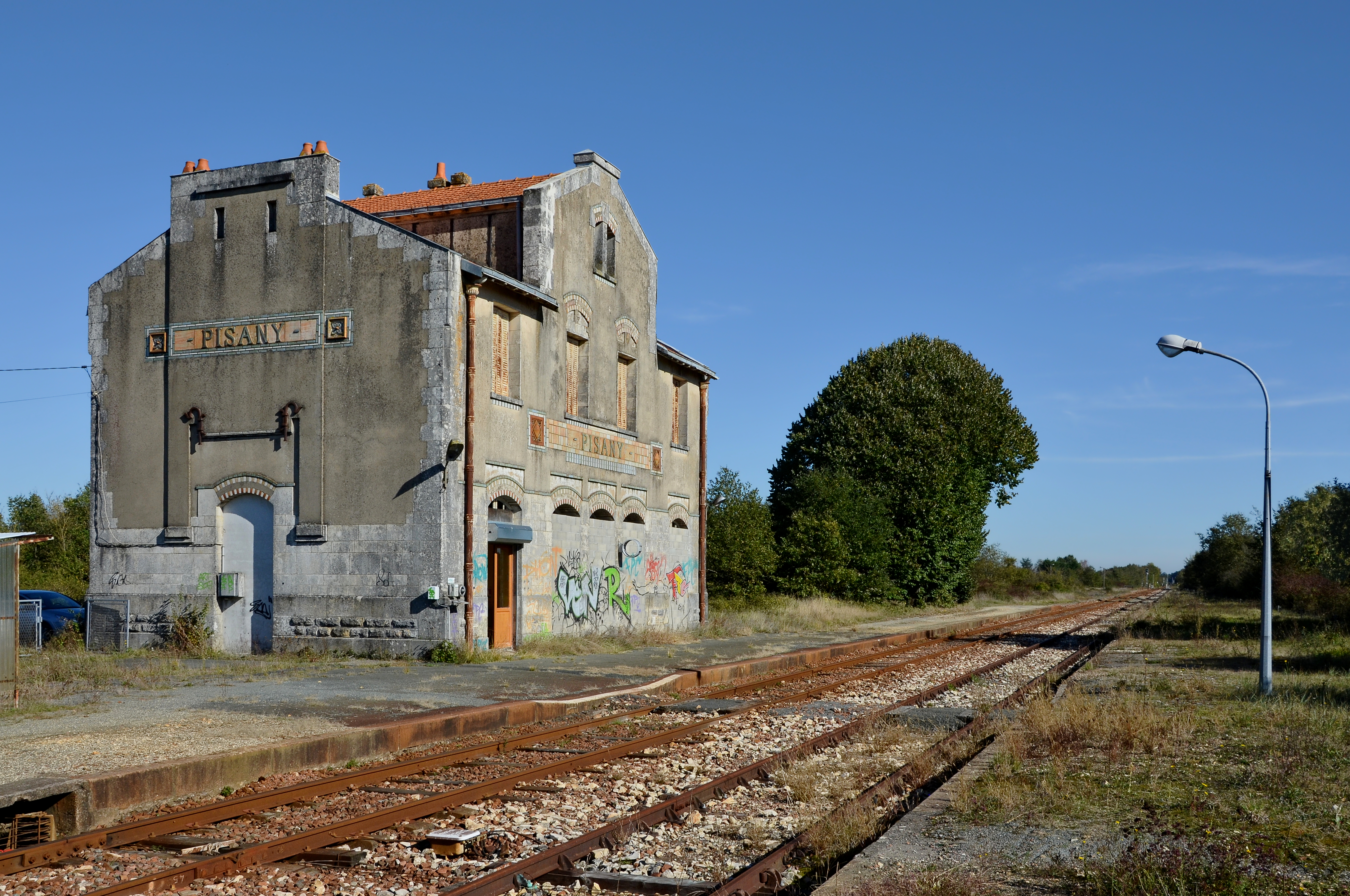 Former railway station of Pisany, Charente-Maritime, France.